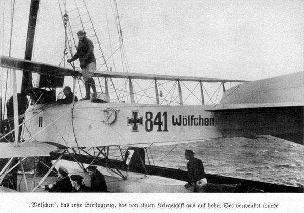 The Friedrichshafen FF.33 seaplane "Wölfchen" (Little Wolf) aboard SMS Wolf (auxiliary cruiser).